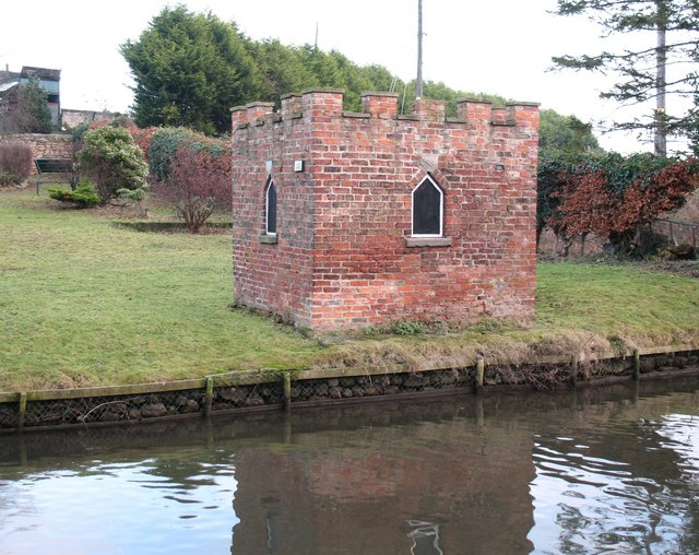 The Leech House On the Aiskew side of Bedale Beck, this little 18th century building was constructed for the storing of leeches, which were used locally for all sorts of medicinal purposes including 'congestion', headaches and inflammation.